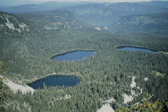 The Sky Lakes Wilderness, part of the Fremont–Winema and Rogue River–Siskiyou national forests